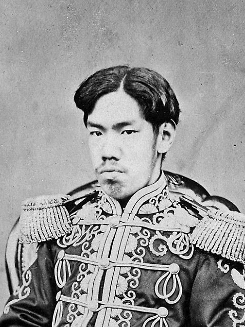 Meiji Emperor